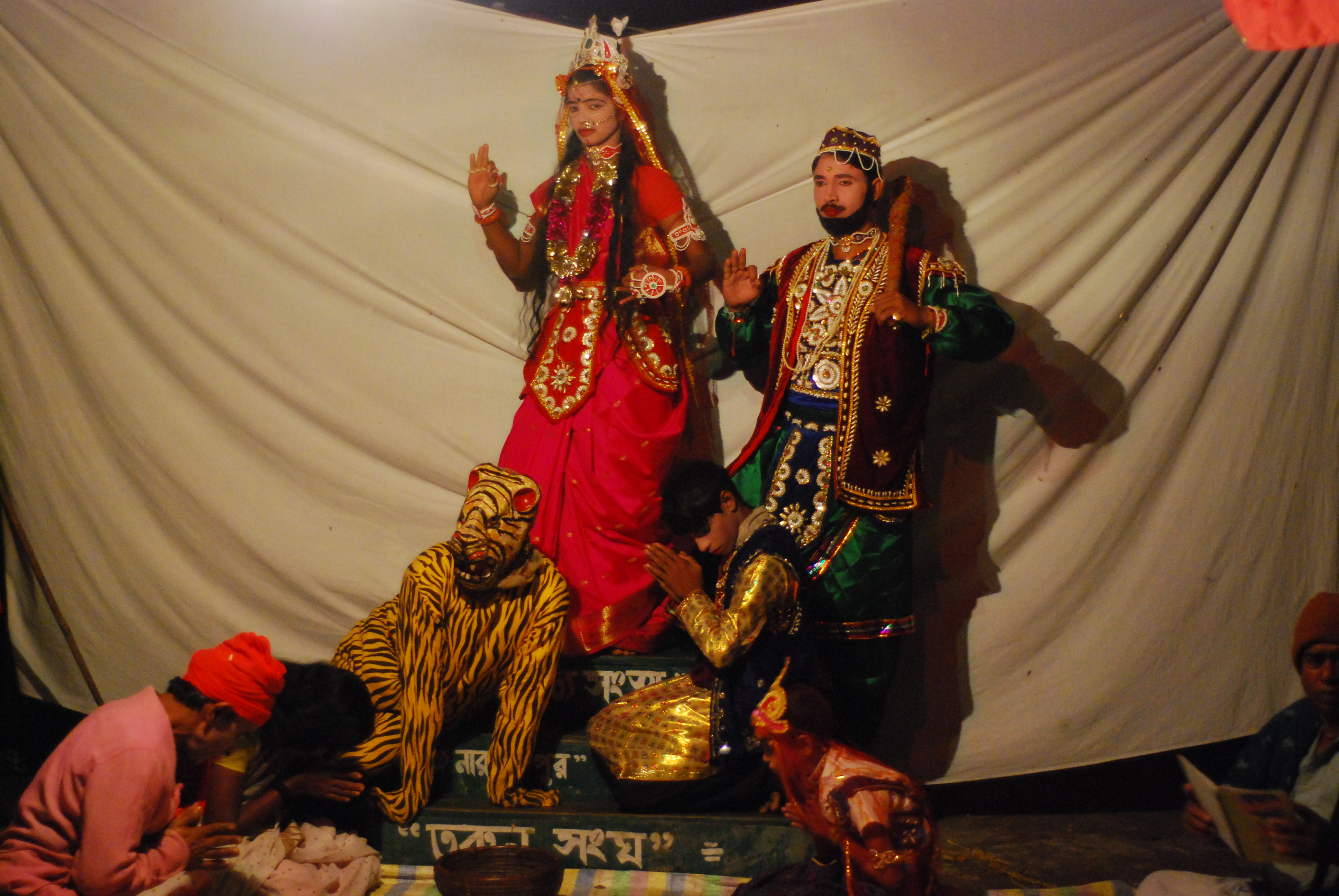 The finale of Bonbibi-r Pala in Sundarban, India